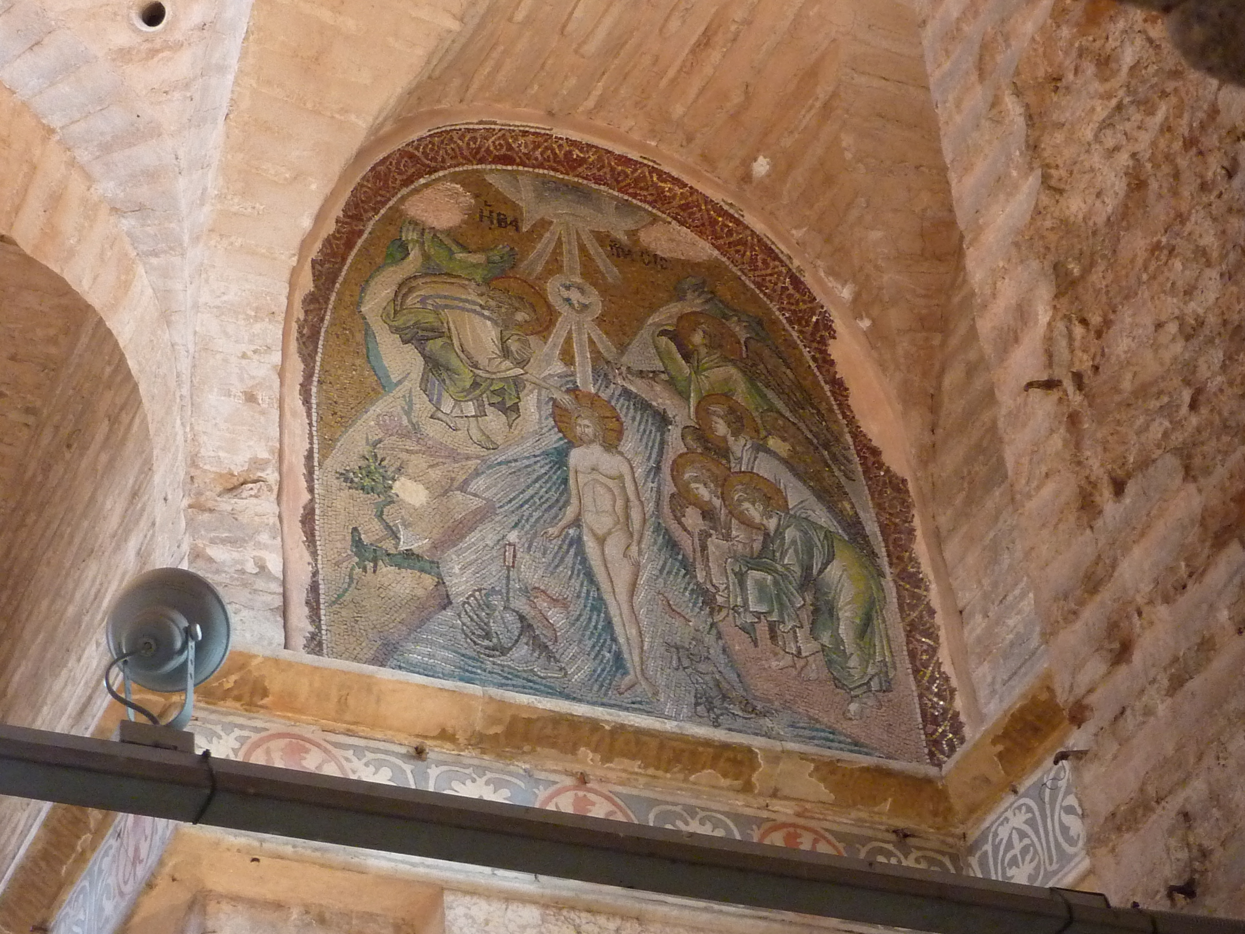 Pammakaristos Church (Fethiye Museum)